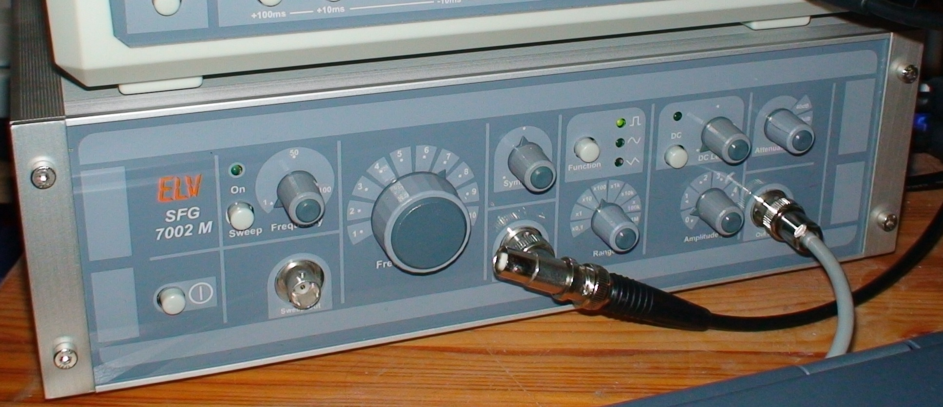 Function generator; ELV SFG 7002 M.